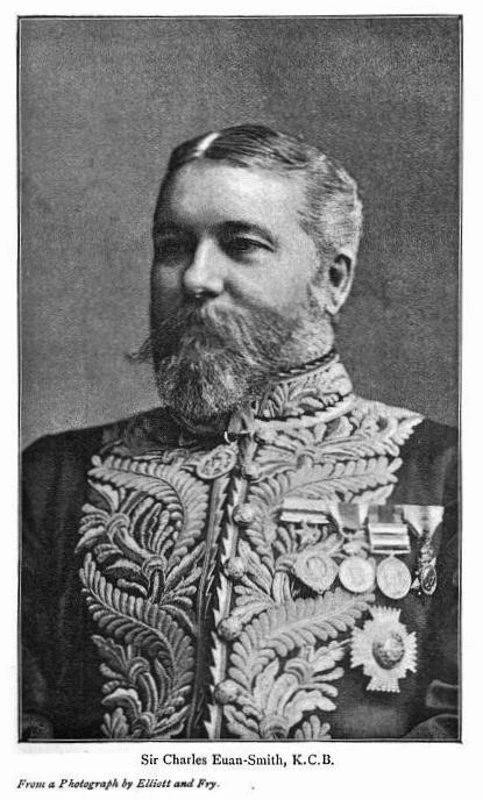 Minister Resident and Consul-General to the Republic of Colombia Jul – Nov 1898: Sir Charles Bean Euan-Smith